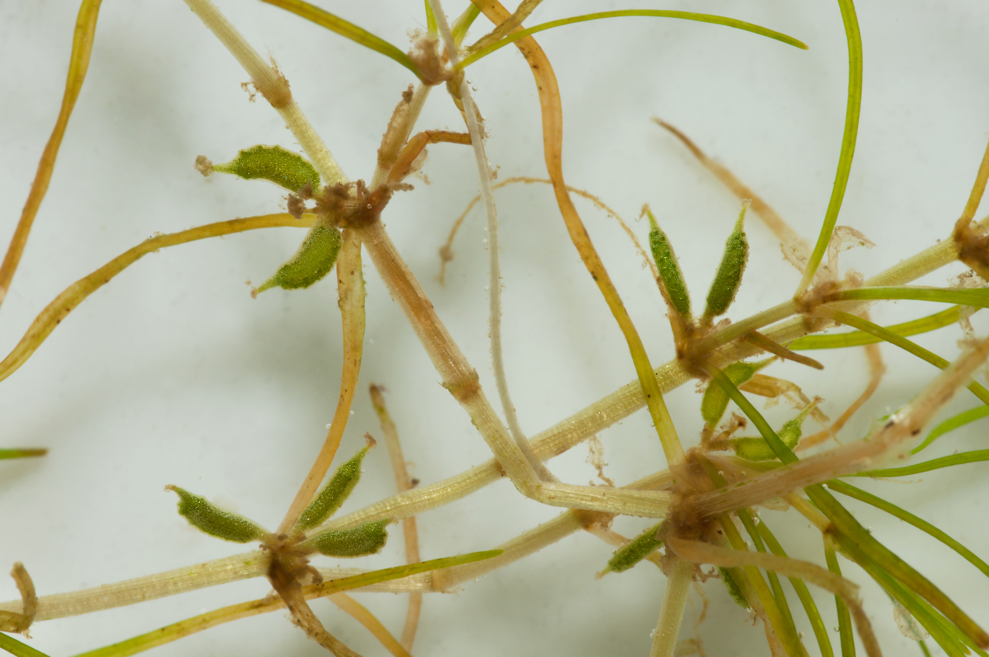 Close-up of the fruits from the water plant Zannichellia palustris ssp. palustris. These are about 1–2 mm in length.